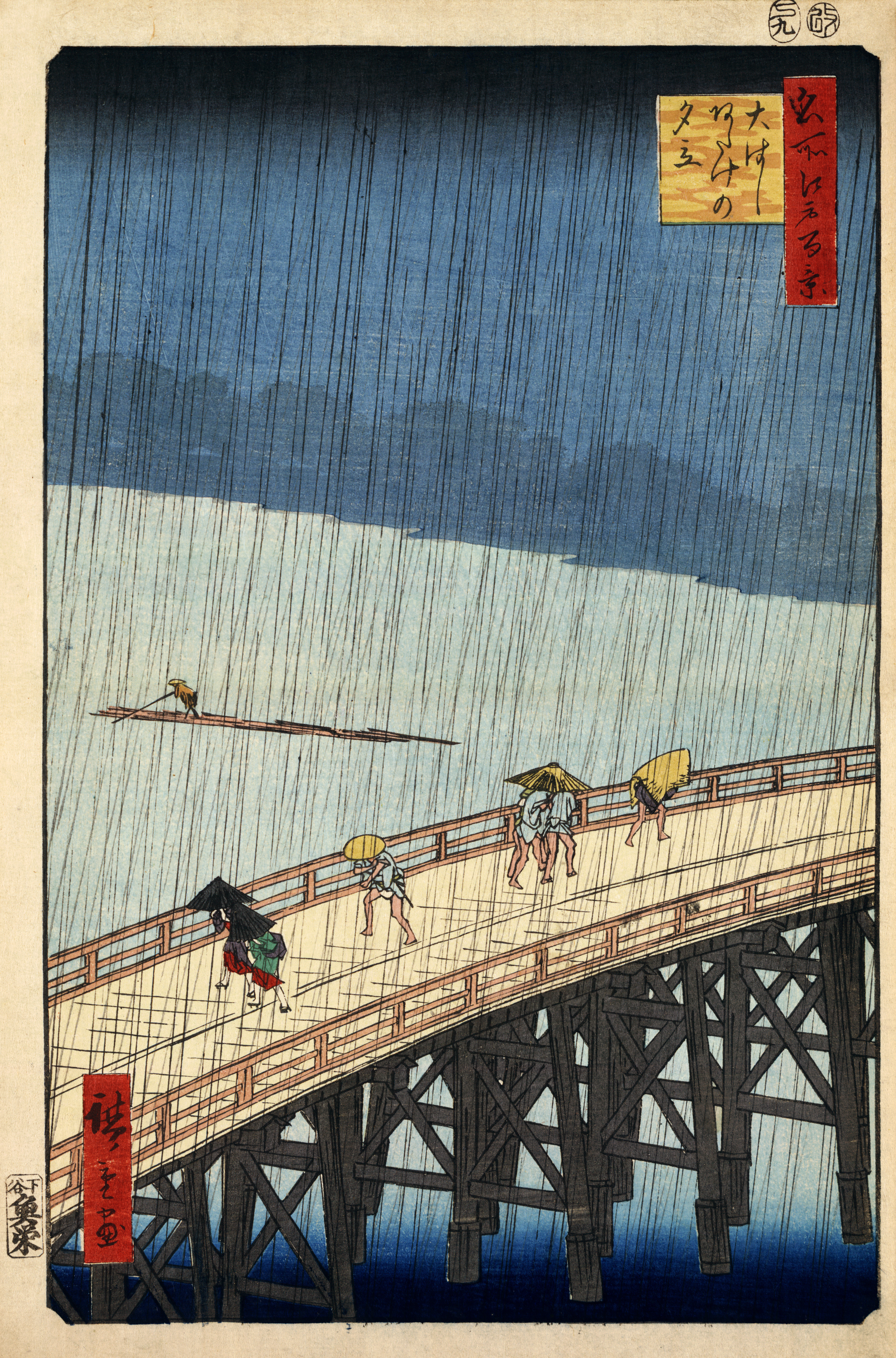 Ohashi Atake no Yudachi (Sudden shower over Shin-Ōhashi bridge and Atake). Ukiyo-e print shows pedestrians crossing the great bridge at Atake during a rain storm. No. 52 in the series Meisho Yedo Hiakkei (One Hundred Famous Views of Edo), 1857.